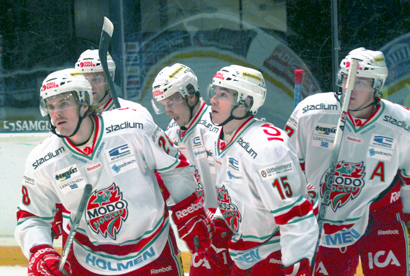 MODO Hockey players during a game vs. AIK